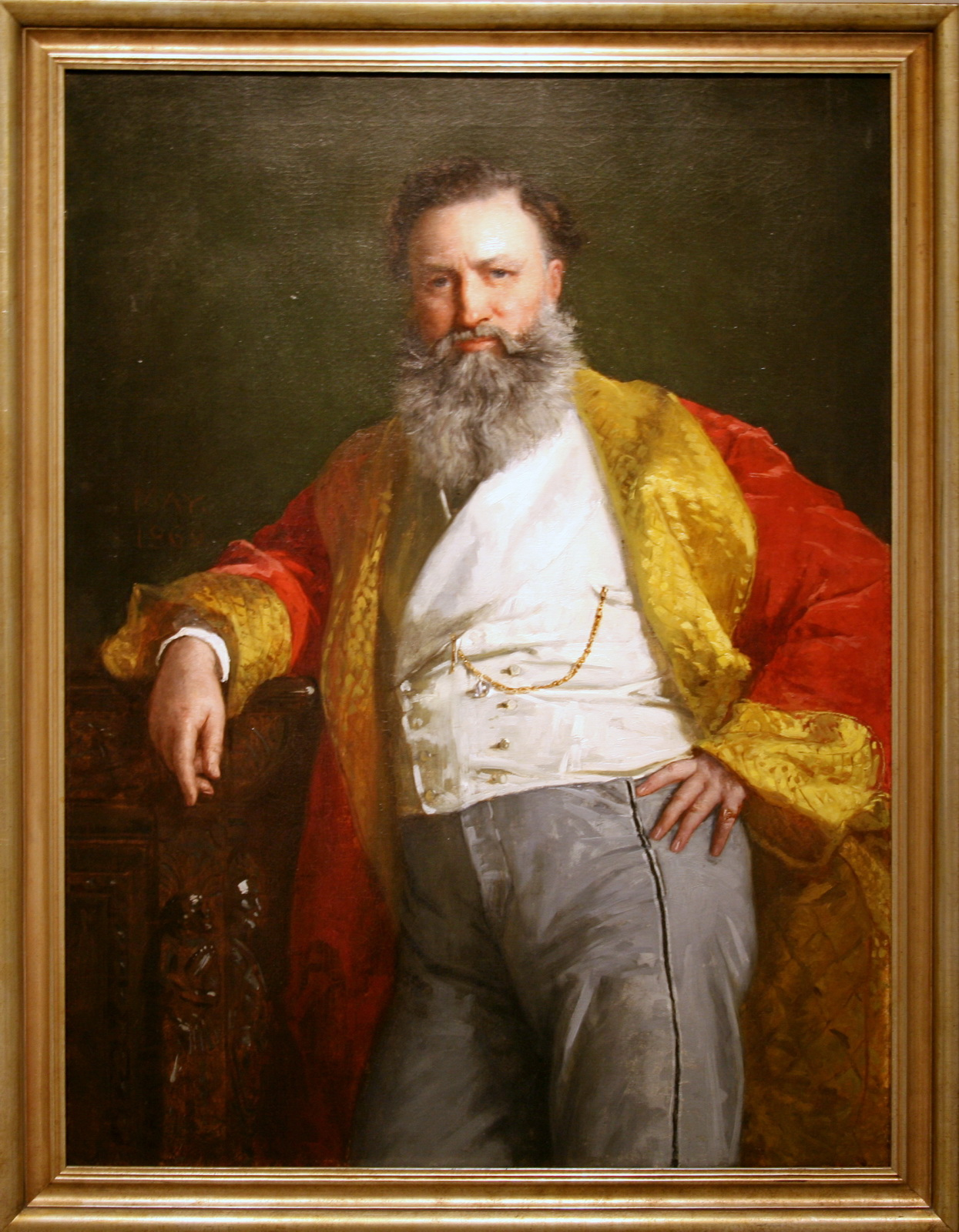 Oil on canvas painting of Isaac Merrit Singer; size without frame 130.8×98.7 cm.